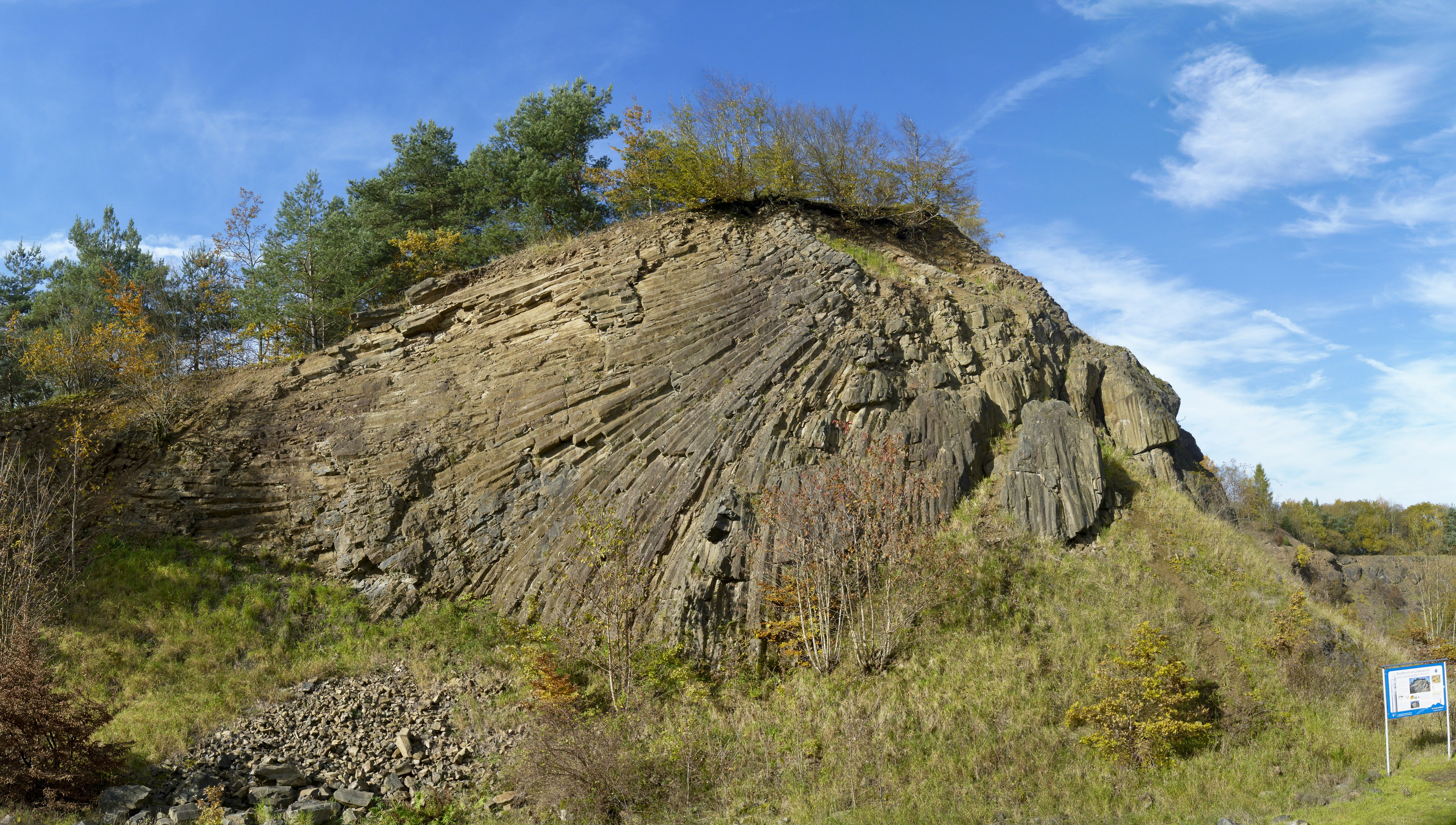 Lindenstumpf (= lime butt), a basalt formation northwest of Schondra